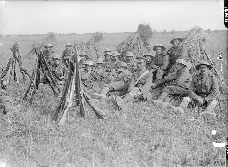 The Battle of the Somme, July-november 1916 Lieutenant Baxter's Platoon, C Company, 1/7th Battalion, Worcestershire Regiment, resting in a cornfield near Lavieville, September 1916.